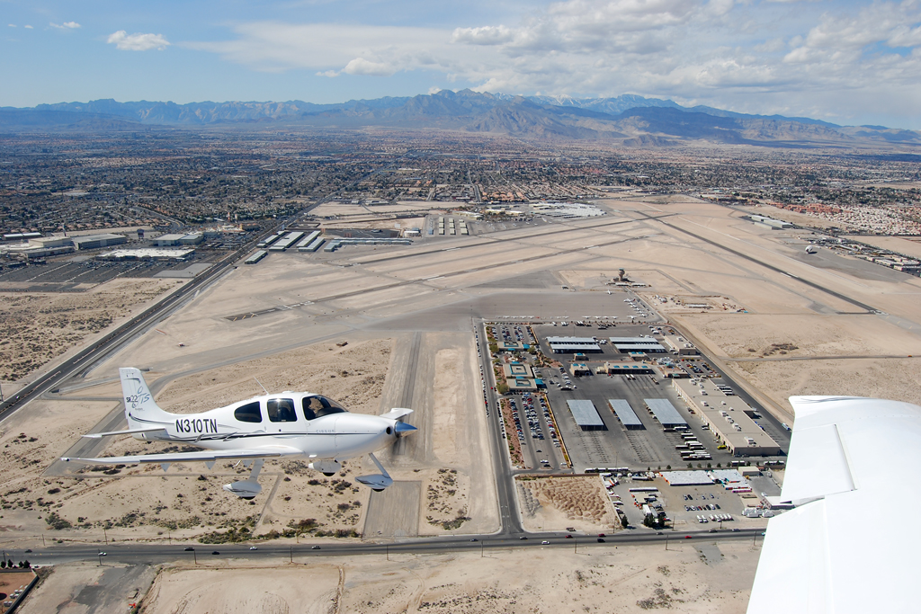 Overview of North Las Vegas Airport. Look closely to the bottom right you can see several Dornier 228/328s.